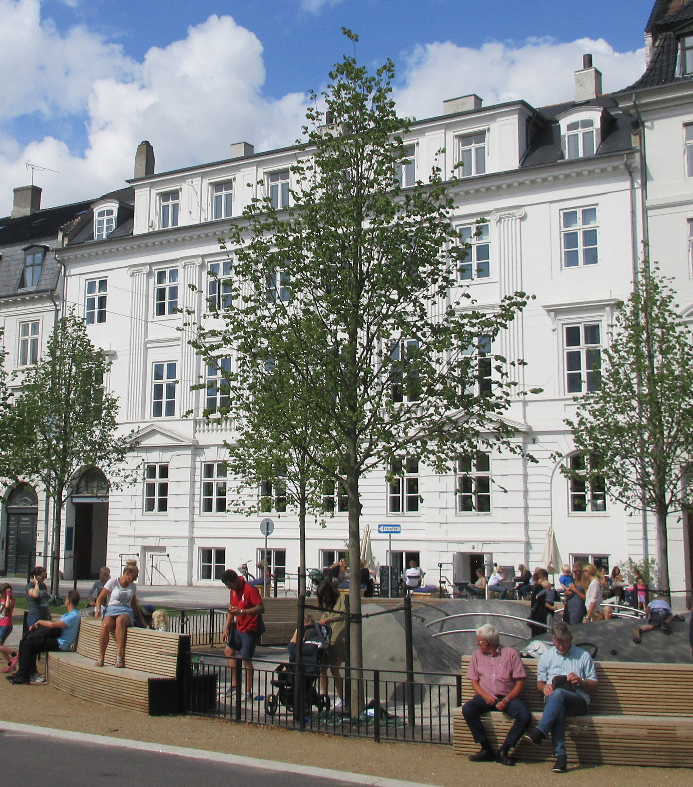 Sankt Annæ Plads 11